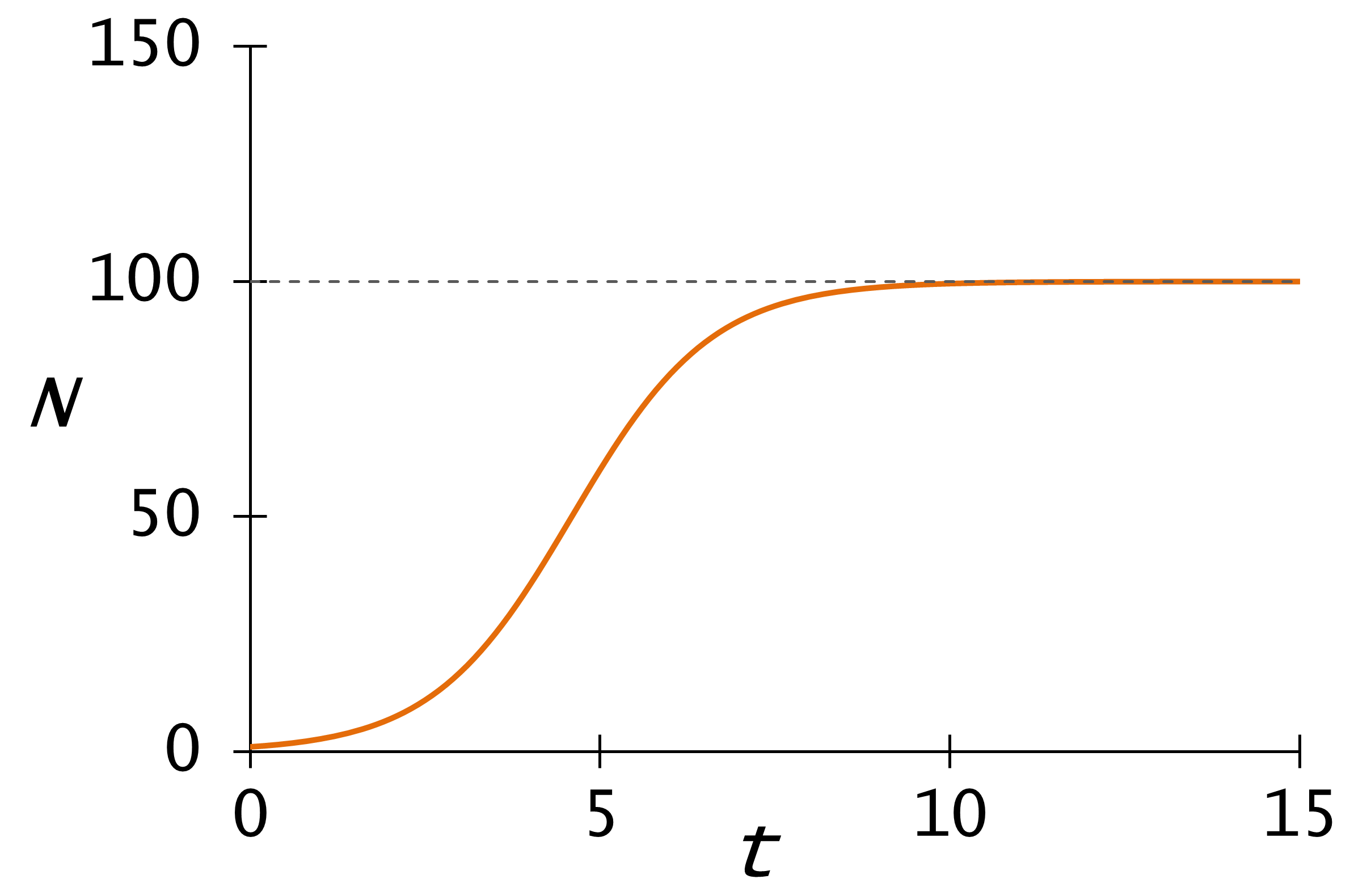 An example of Logistic curve. The following is a form of Logistic curve equation: N = K 1 + ( K / N 0 − 1 ) e − r t {\displaystyle N={\frac {K}{1+(K/N_{0}-1)e^{-rt The parameters, r = 1, K = 100, N0 = 1, are used for this curve.